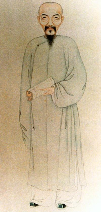 Portrait of Ji Yun.